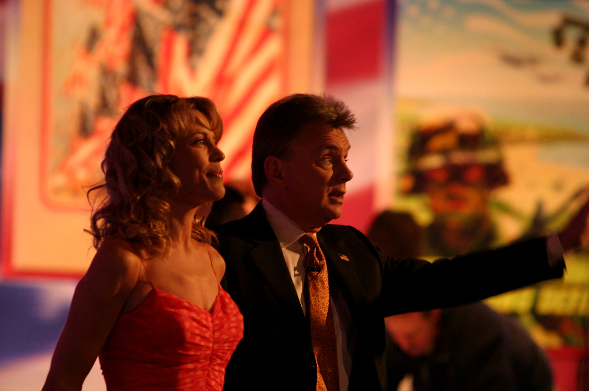 Pat Sajak and Vanna White of "Wheel of Fortune" address the studio audience during a taping of the popular game show at Sony Entertainment Studios in Los Angeles Feb. 8. The show featured 15 servicemembers as contestants when hosted "Wheel Salutes the Armed Forces," which is scheduled to air the week of April 3.